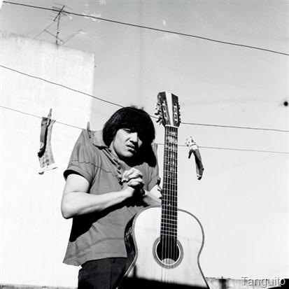 Argentinian poet and singuer Tanguito (d. 1972), hung from a rope.